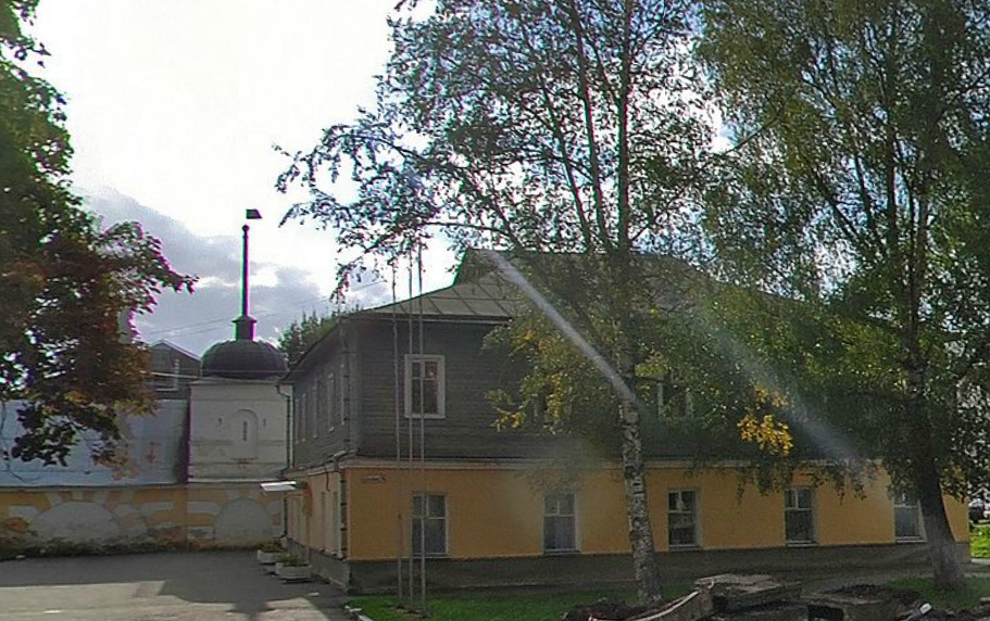 Desyatinny monastery: the monastery hotel